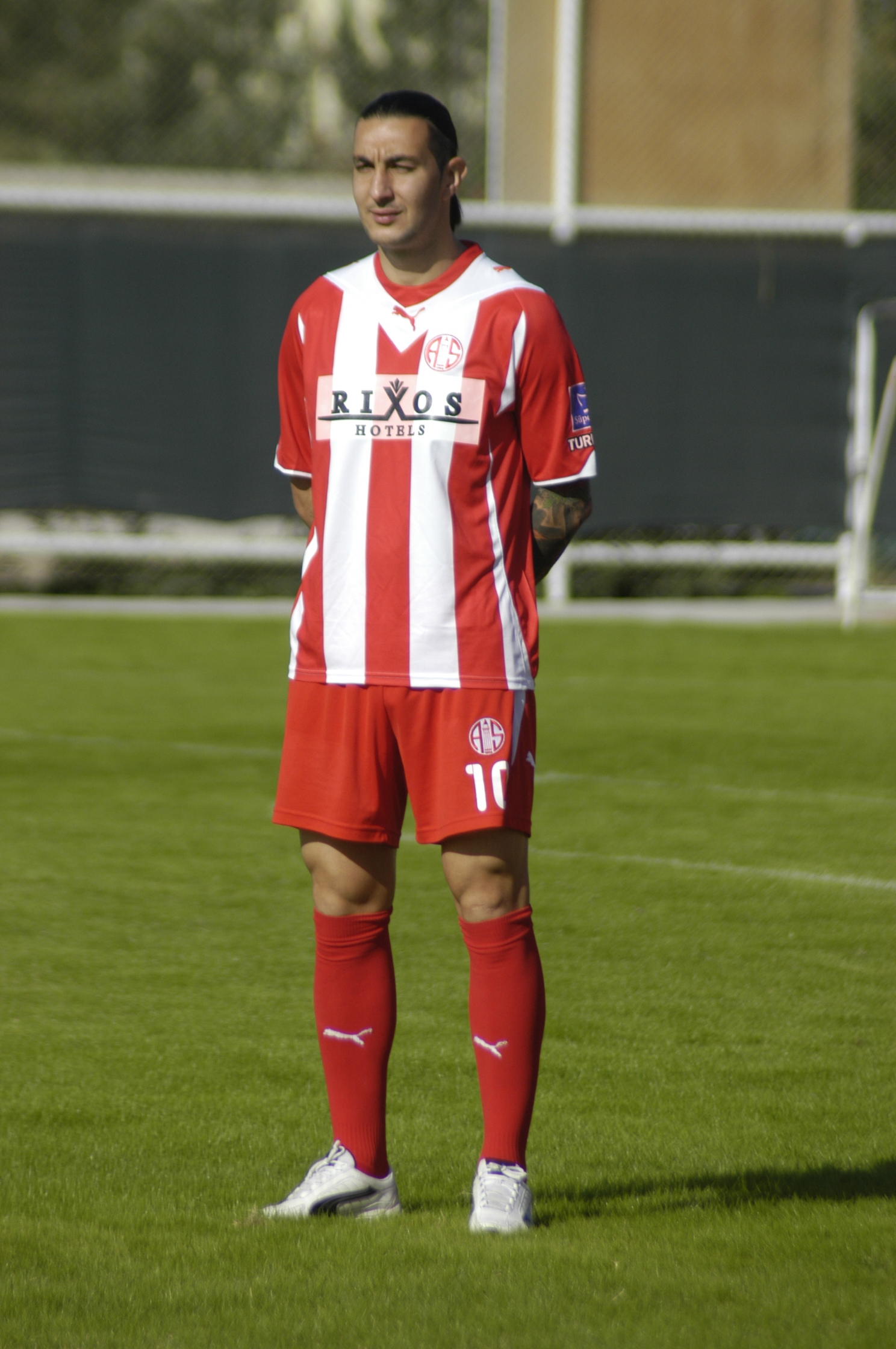 Necati playing for Antalya Photo : Murat Özgen